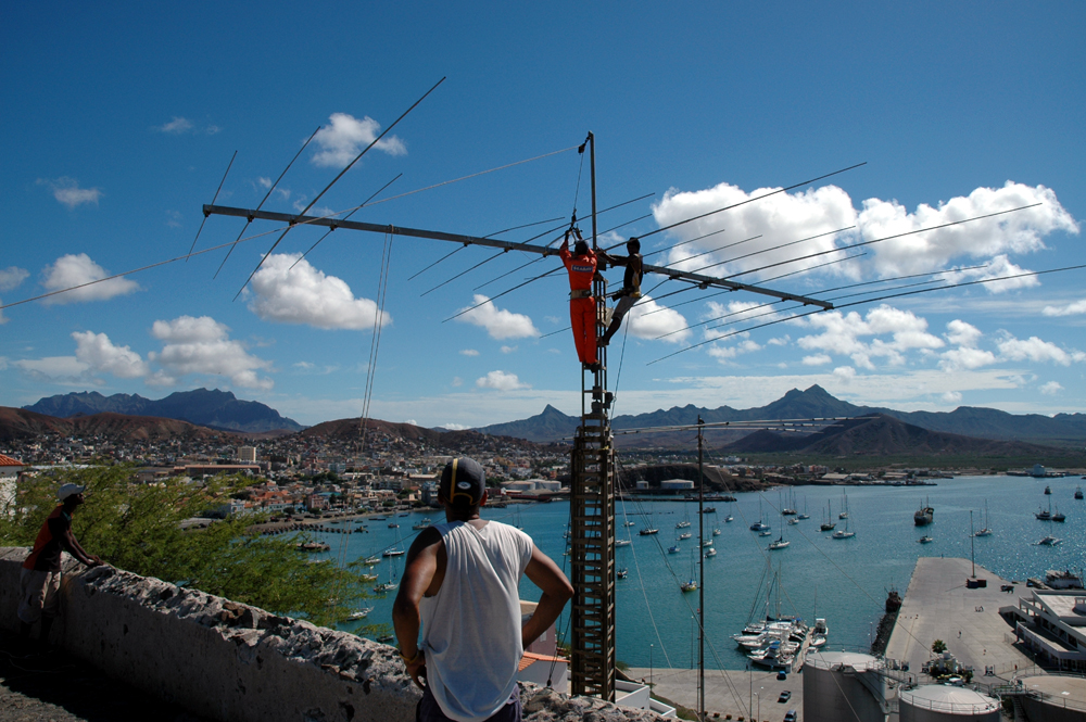 A rotary directional antenna for Amateur Radio use. Photograph by Henryk Kotowski